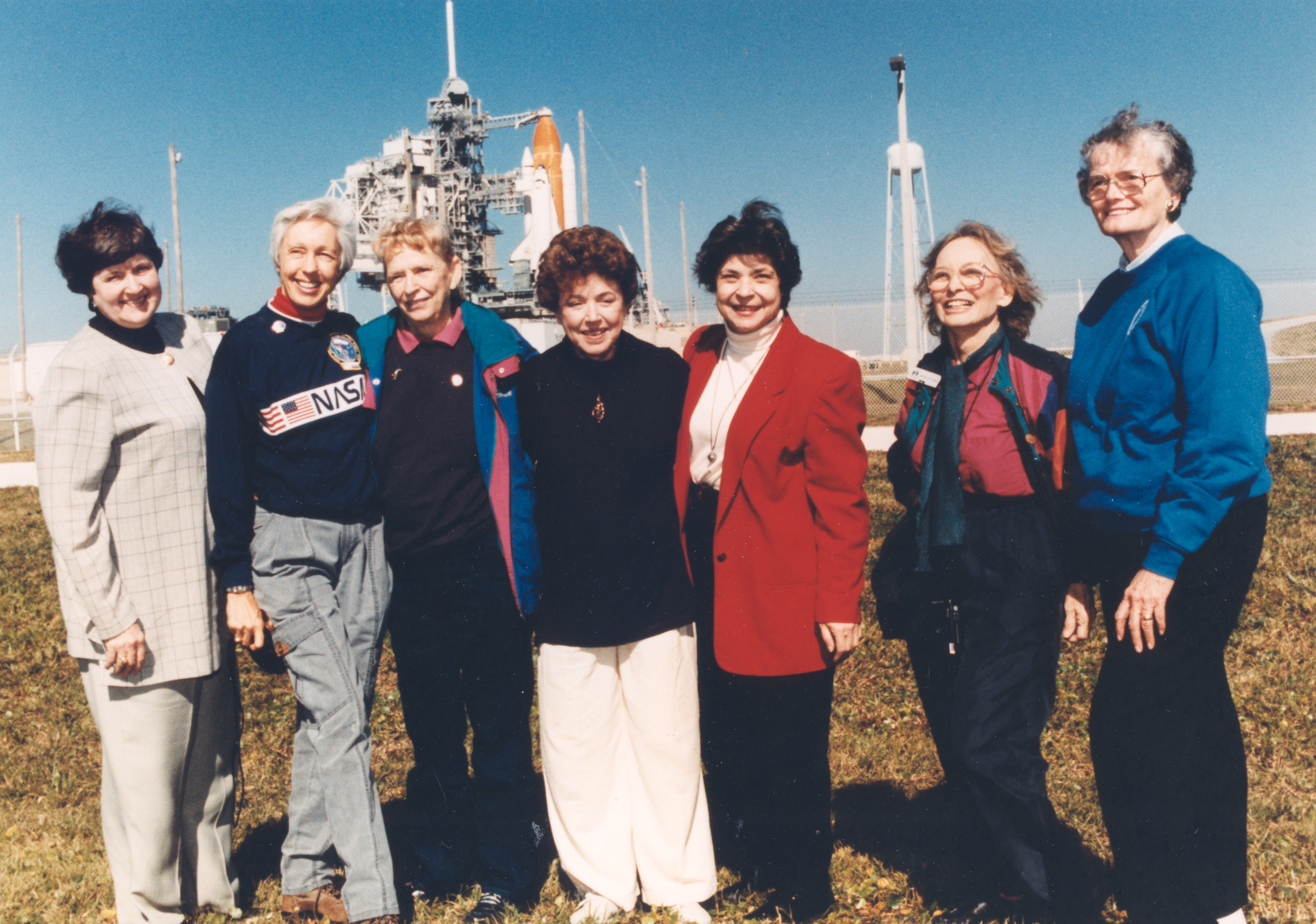 Exuberant and thrilled to be at the Kennedy Space Center, seven women who once aspired to fly into space stand outside Launch Pad 39B neat the Space Shuttle Discovery, poised for liftoff on the first flight of 1995. They are members of the First Lady Astronaut Trainees (FLATs, also known as the "Mercury 13"), a group of women who trained to become astronauts for Americas first human spaceflight program back in the early 1960s. Although this FLATs effort was never an official NASA program, their commitment helped pave the way for the milestone Eileen Collins set: becoming the first female Shuttle pilot. Visiting the space center as invited guests of STS-63 Pilot Eileen Collins are (from left): Gene Nora Jessen, Wally Funk, Jerrie Cobb, Jerri Truhill, Sarah Rutley, Myrtle Cagle and Bernice Steadman.